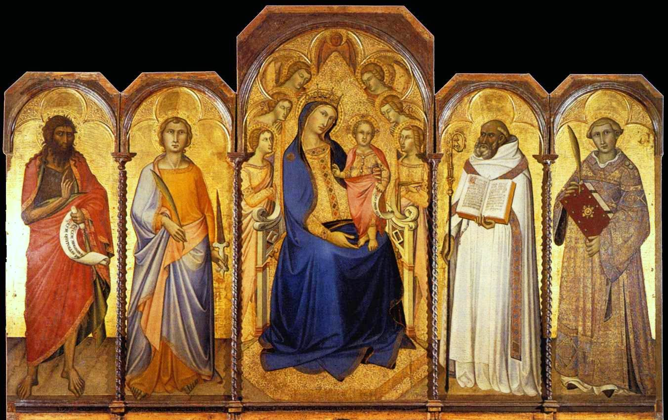 Virgin and Child with Saints. Luca di Tomme. 1362.